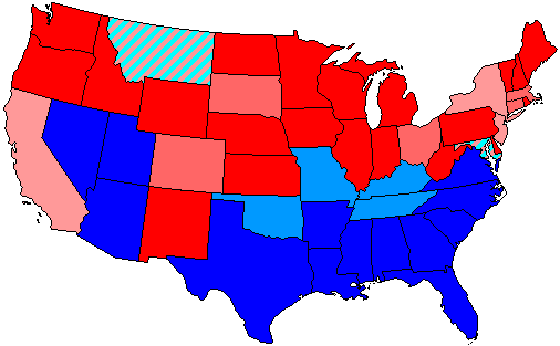 Summary of party control of U.S. house seats in the 66th United States Congress following election. Stripes indicate a tie between two or more parties. Legend: 80.1-100% Democratic seat majority 60.1-80% Democratic seat majority 60% or less Democratic seat plurality 60% or less Republican seat plurality 60.1-80% Republican seat majority 80.1-100% Republican seat majority